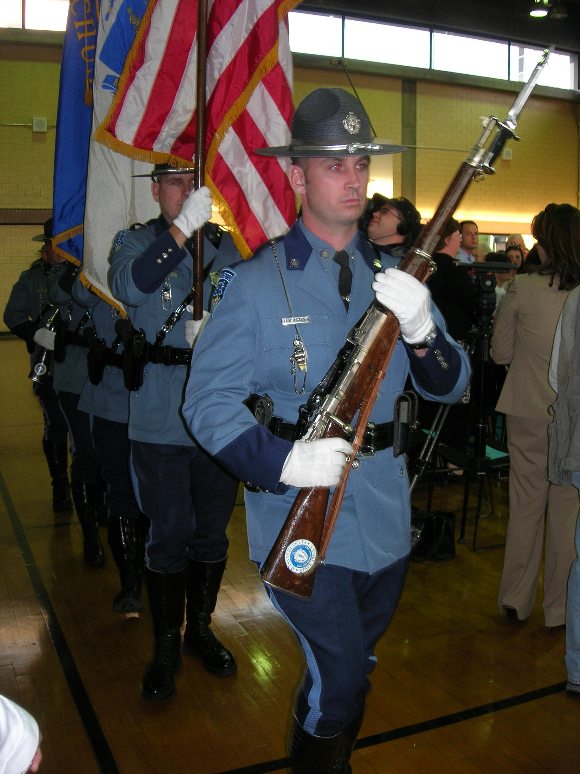 Class A Uniform